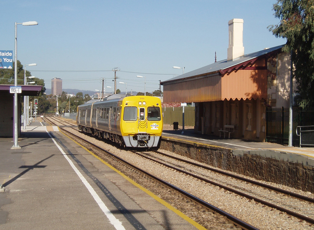 Railcars 3119/3120 speed non-stop through Bowden station with 14.37 Adelaide to Outer Harbor train on 19 May 2005.